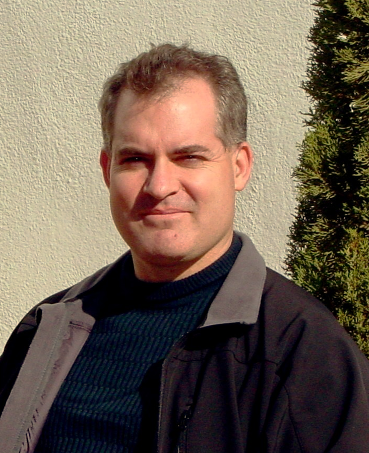 Dan Meyer, Director of Civilian Reprisal Investigations, on temporary duty in Southern California, 2007.